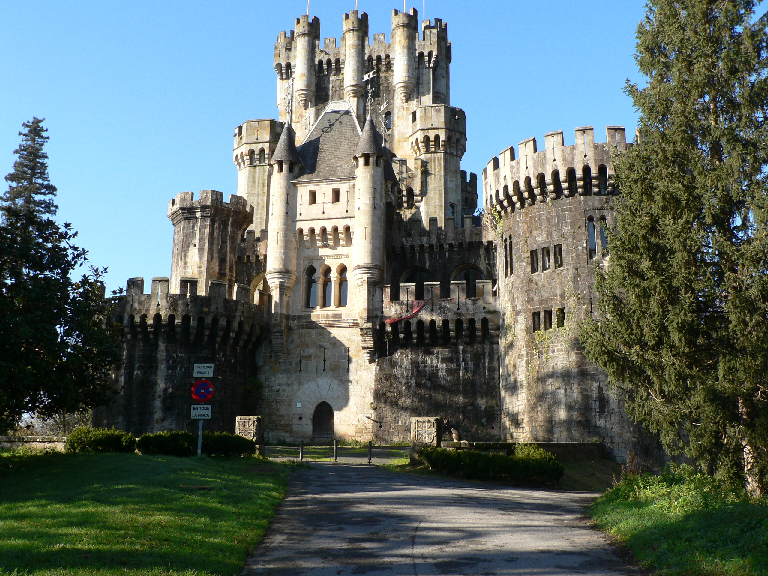 Butron castle, Vizcaya